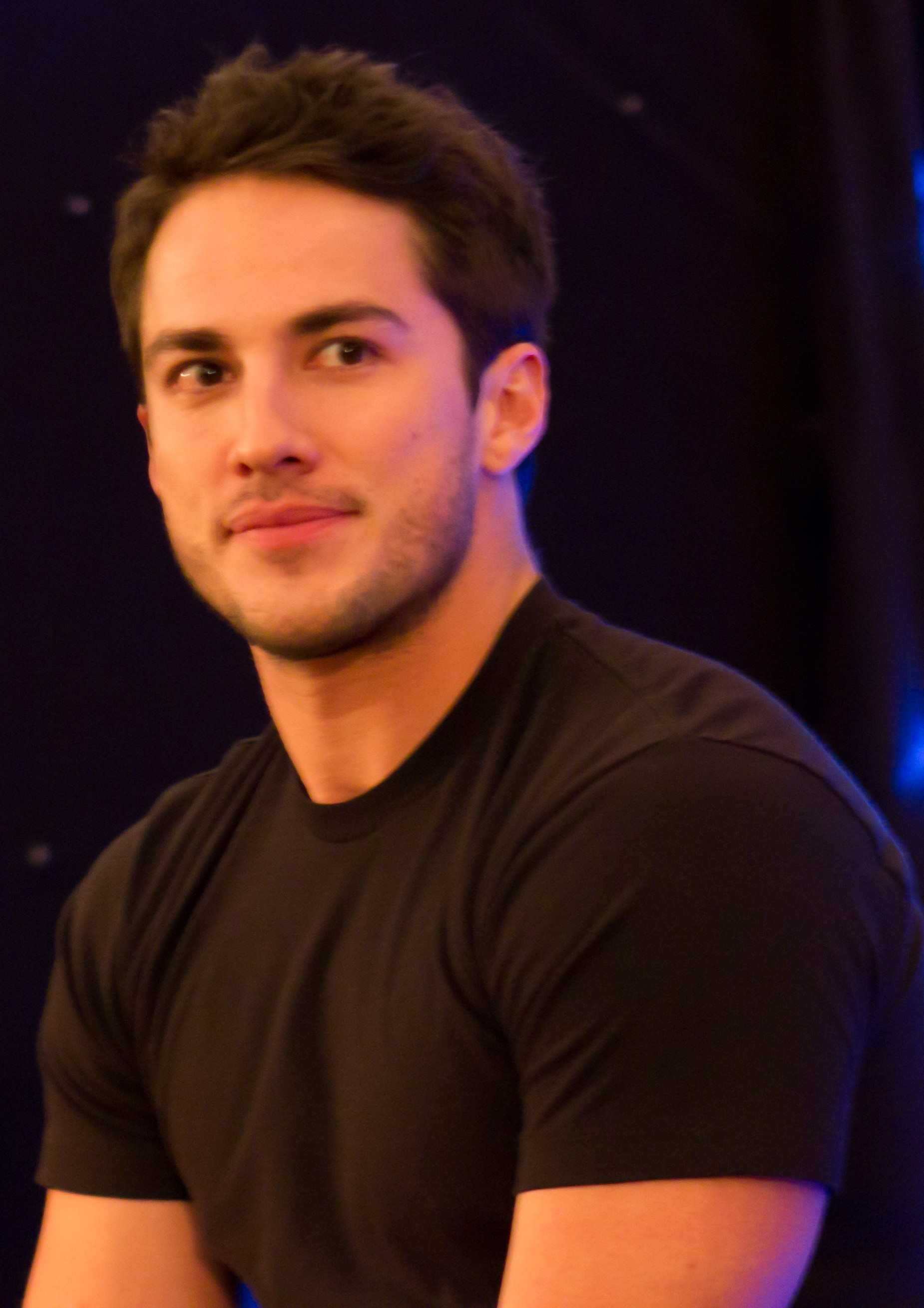 Michael Trevino on June 15, 2013